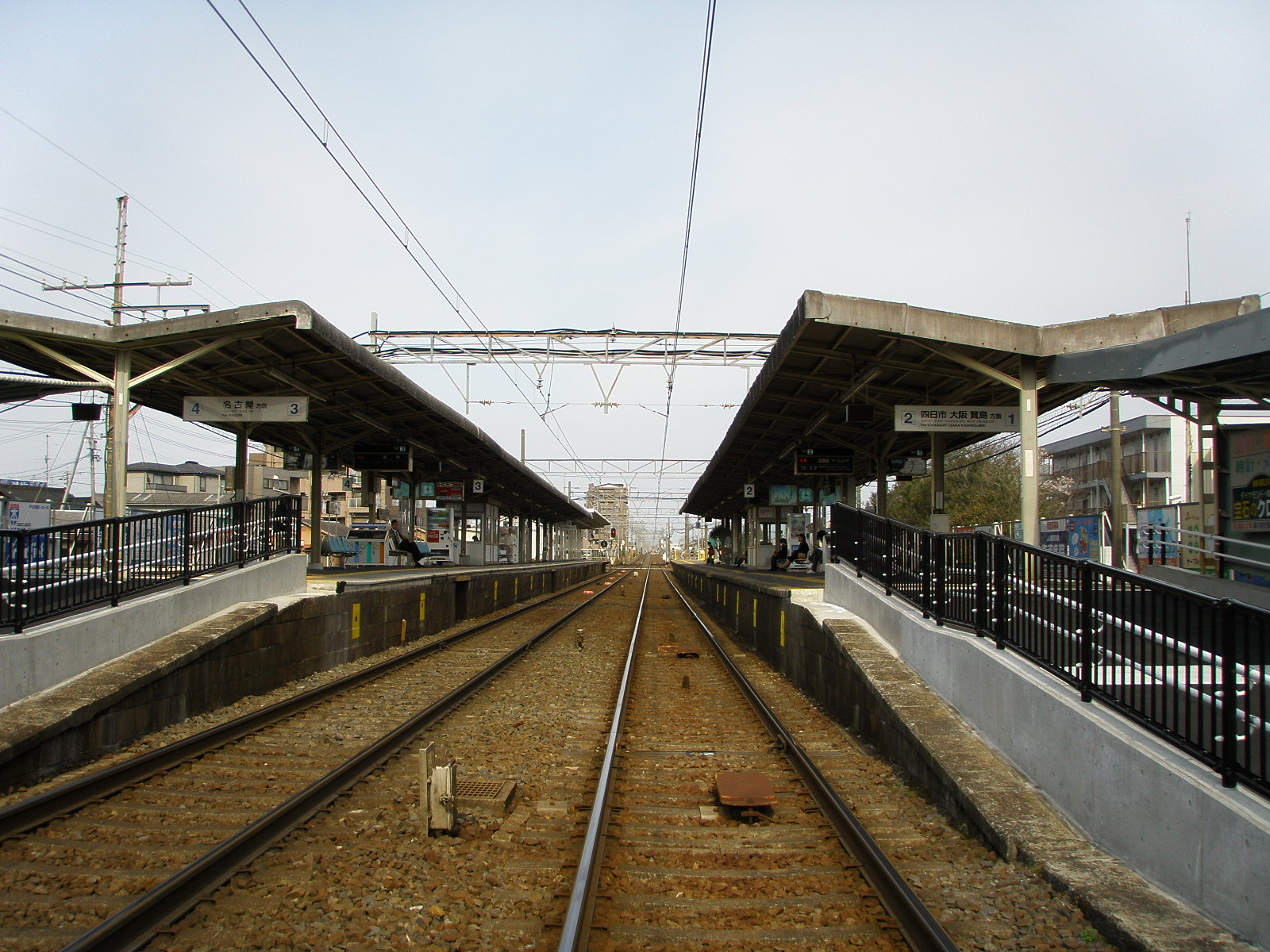 Kinki Nippon Railway Kintetsu-Kanie Station Platform 近畿日本鉄道 近鉄蟹江駅 駅ホーム